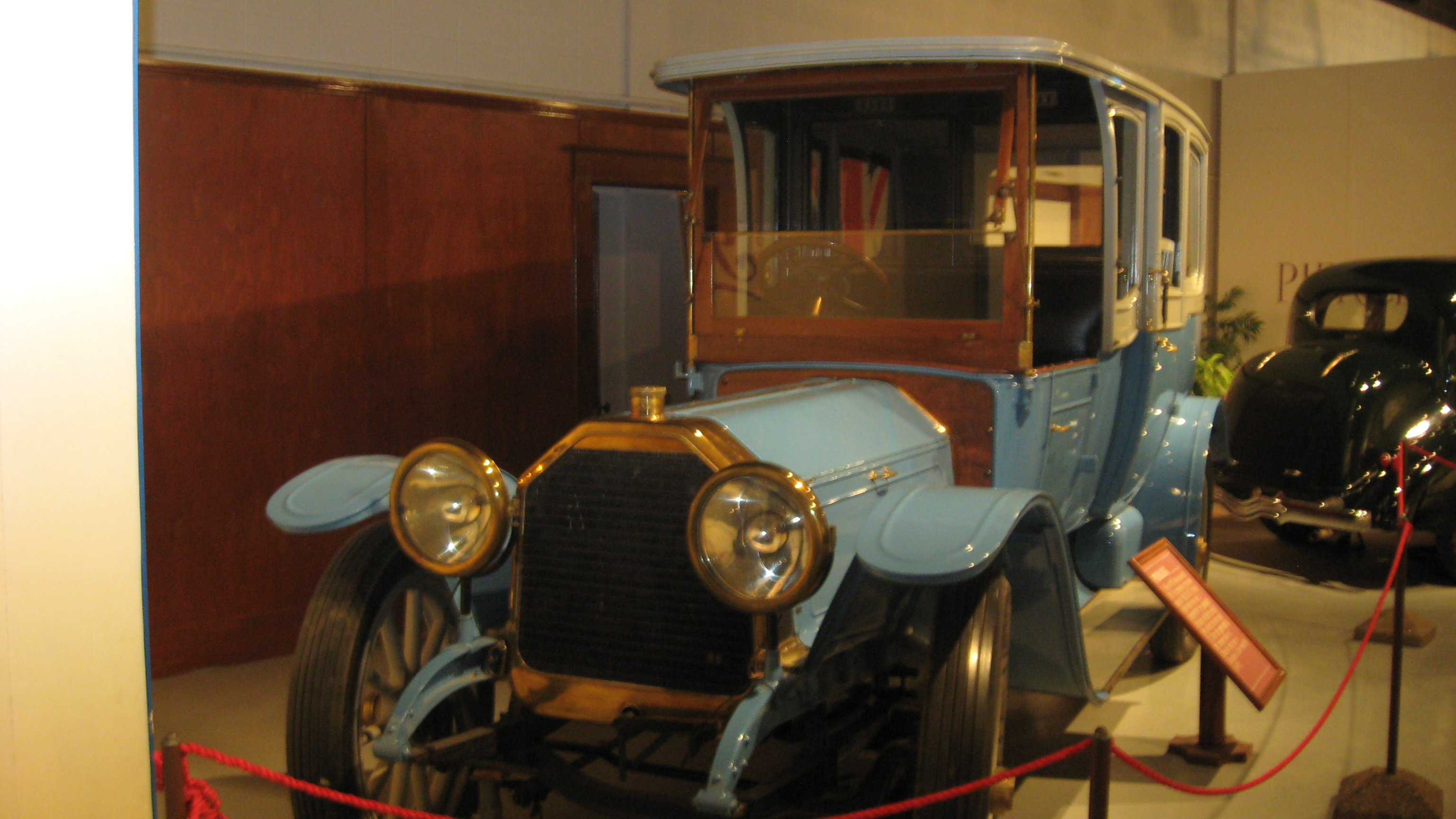 1912 Peerless, owned by a Saskatoon resident in the era. Shot at local museum.